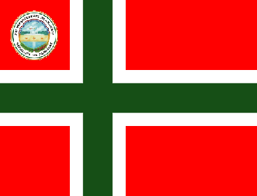 Flag of one of the 17 paraguayan departments, Amambay